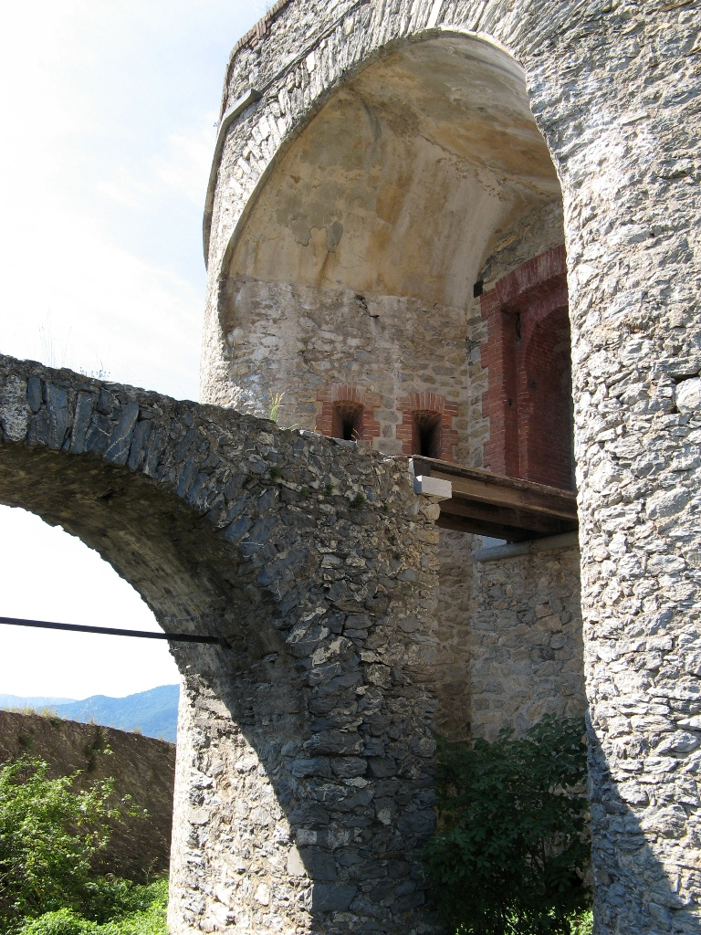 Fort Pozzanghi, part of a XIX century defence system, in Nava, Liguria, Italy